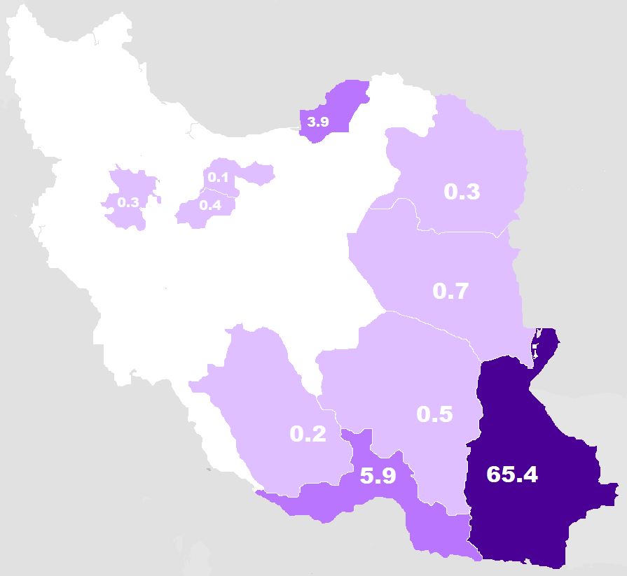 Map of Balochi-inhabited provinces of Iran, according to a poll in 2010.